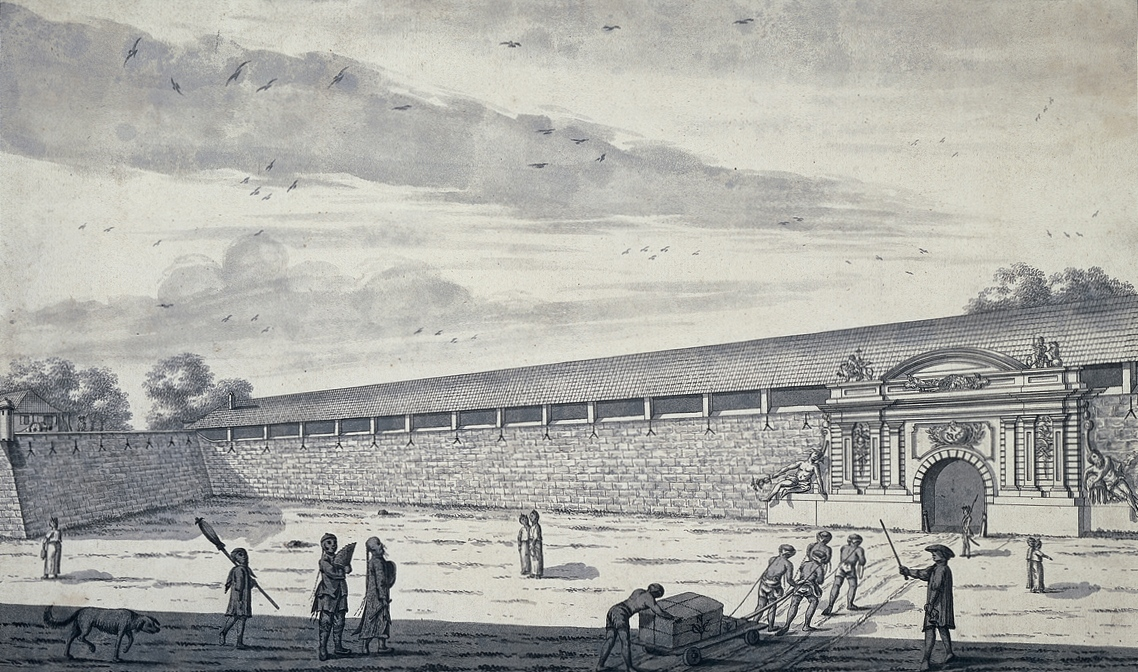 Batavia Castle (today Jakarta), Indonesia, by Johannes Rach